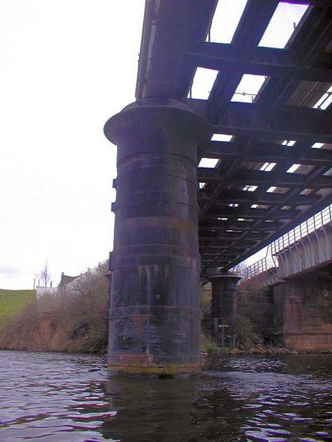 Piers of the Walter Scott Rail Bridge (1882) over the River Tees